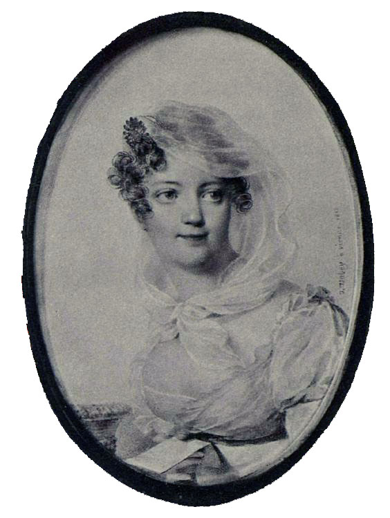 Comtesse Julie de Stroganoff, Jean Baptiste Izabey